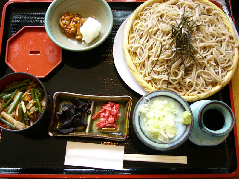 Shinshū soba and sansai gohan (rice seasoned with soy sauce and boiled with edible wild plant), taken by original uploader in Nagano city on September 17th, 2005.